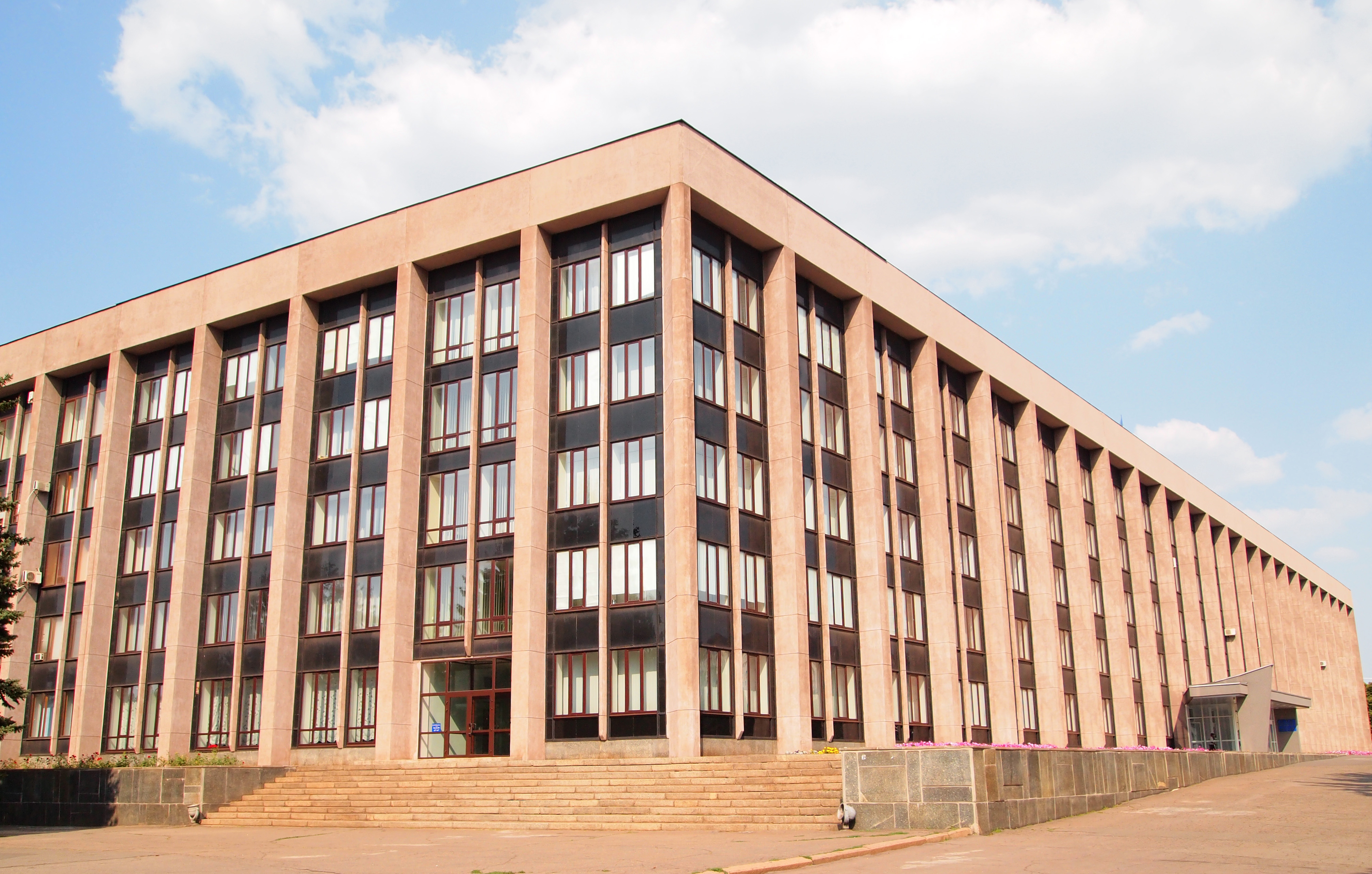 Building in Kryvyi Rih. This photograph was taken with an Olympus E-PL1